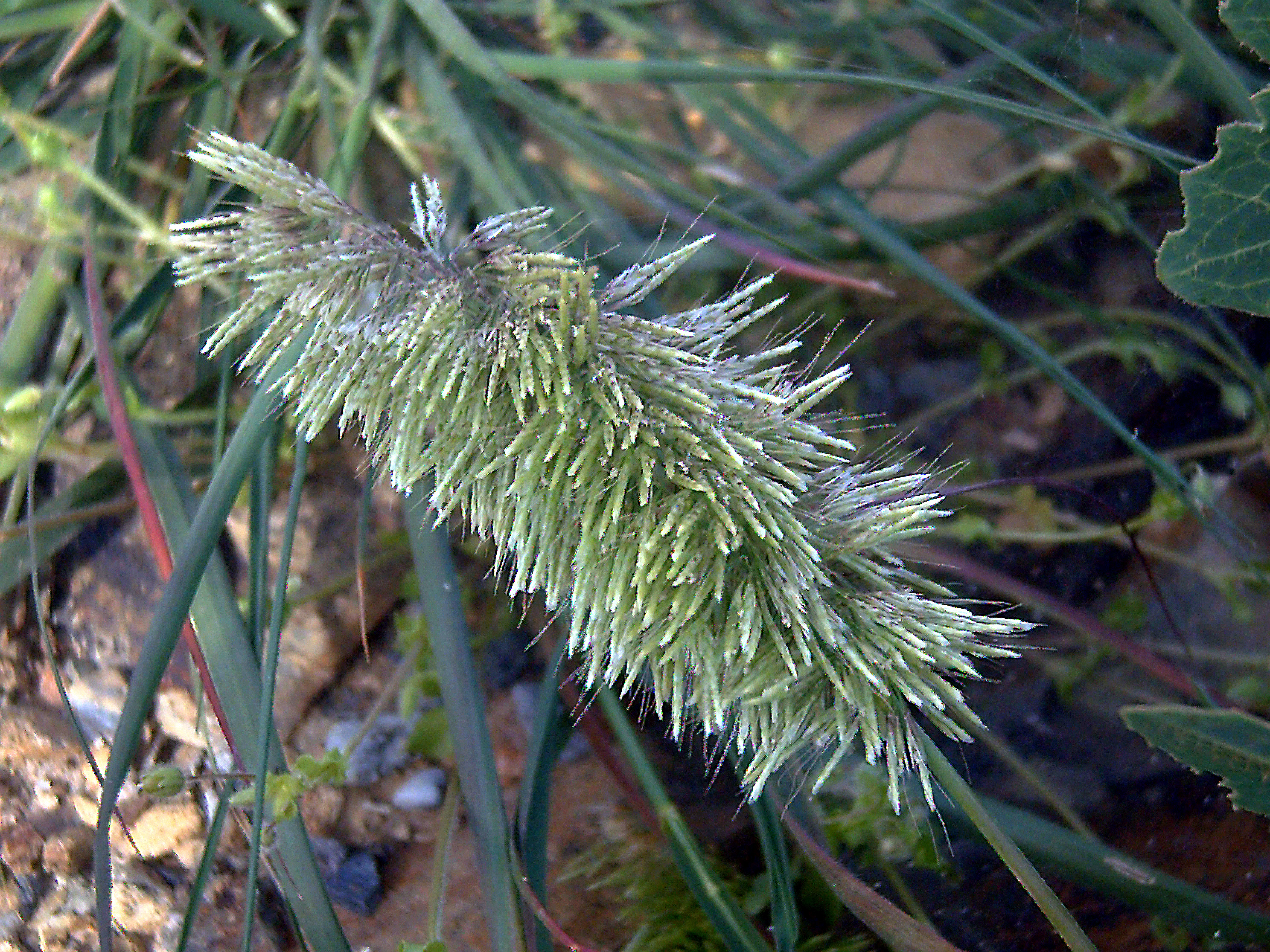 Lamarckia aurea close up, Dehesa Boyal de Puertollano, Spain